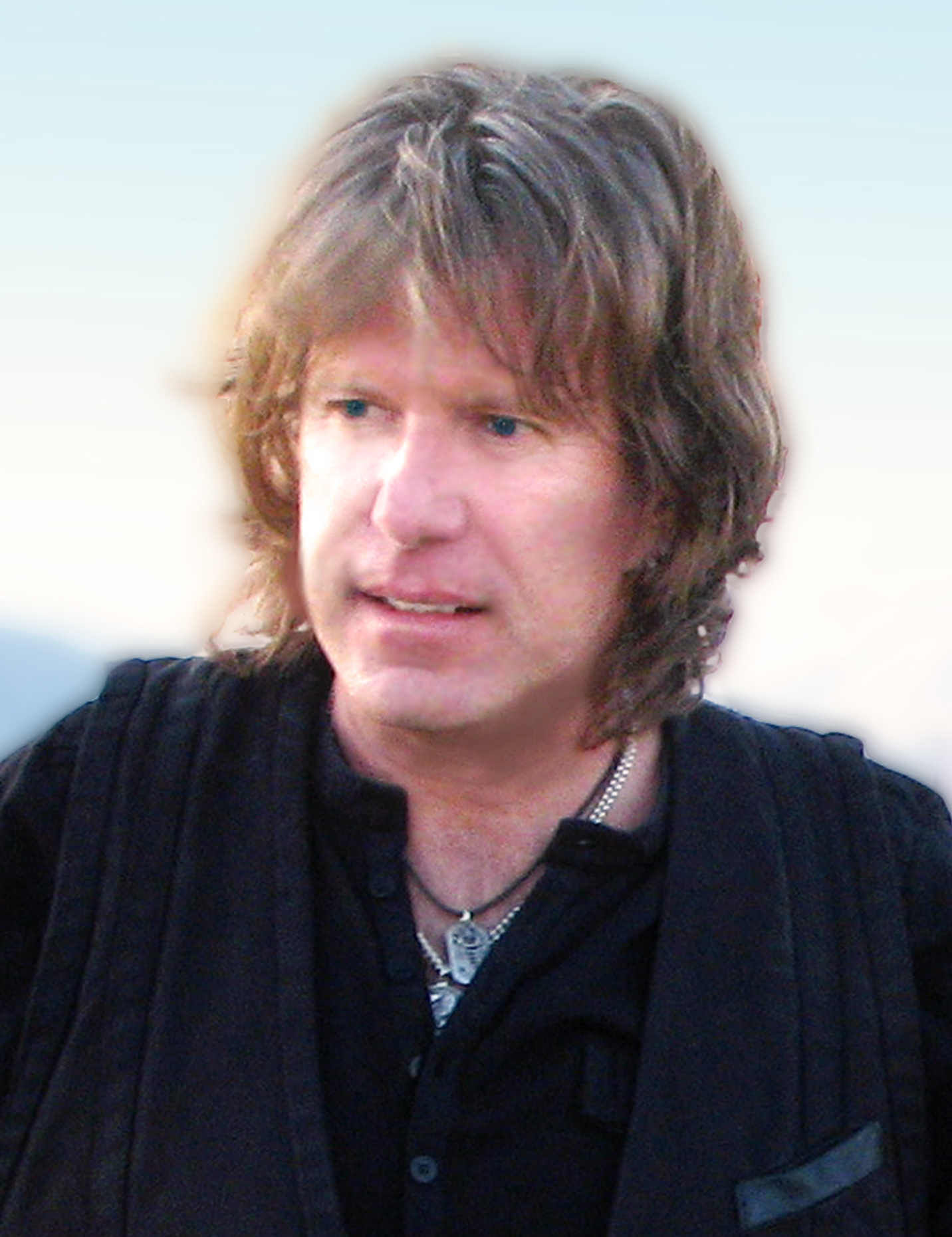 Keith Emerson at the photo shoot for the album released in summer of 2008 titled, "Keith Emerson Band Featuring Marc Bonilla" Taken in Borrego Springs desert in Southern California.